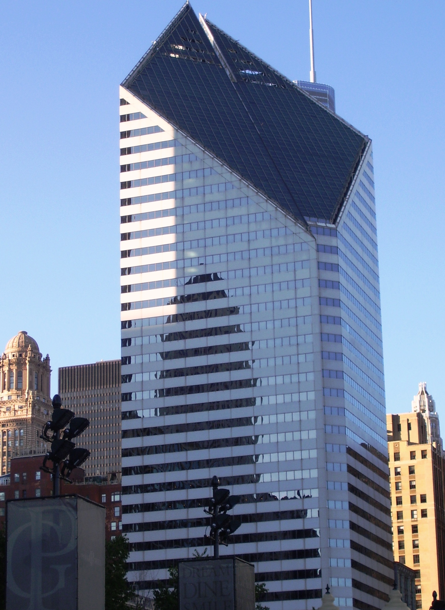 The Smurfit-Stone Building at 150 North Michigan Avenue in downtown Chicago, Illinois, as seen from Millennium Park.